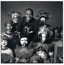 Batoto Yetu Group